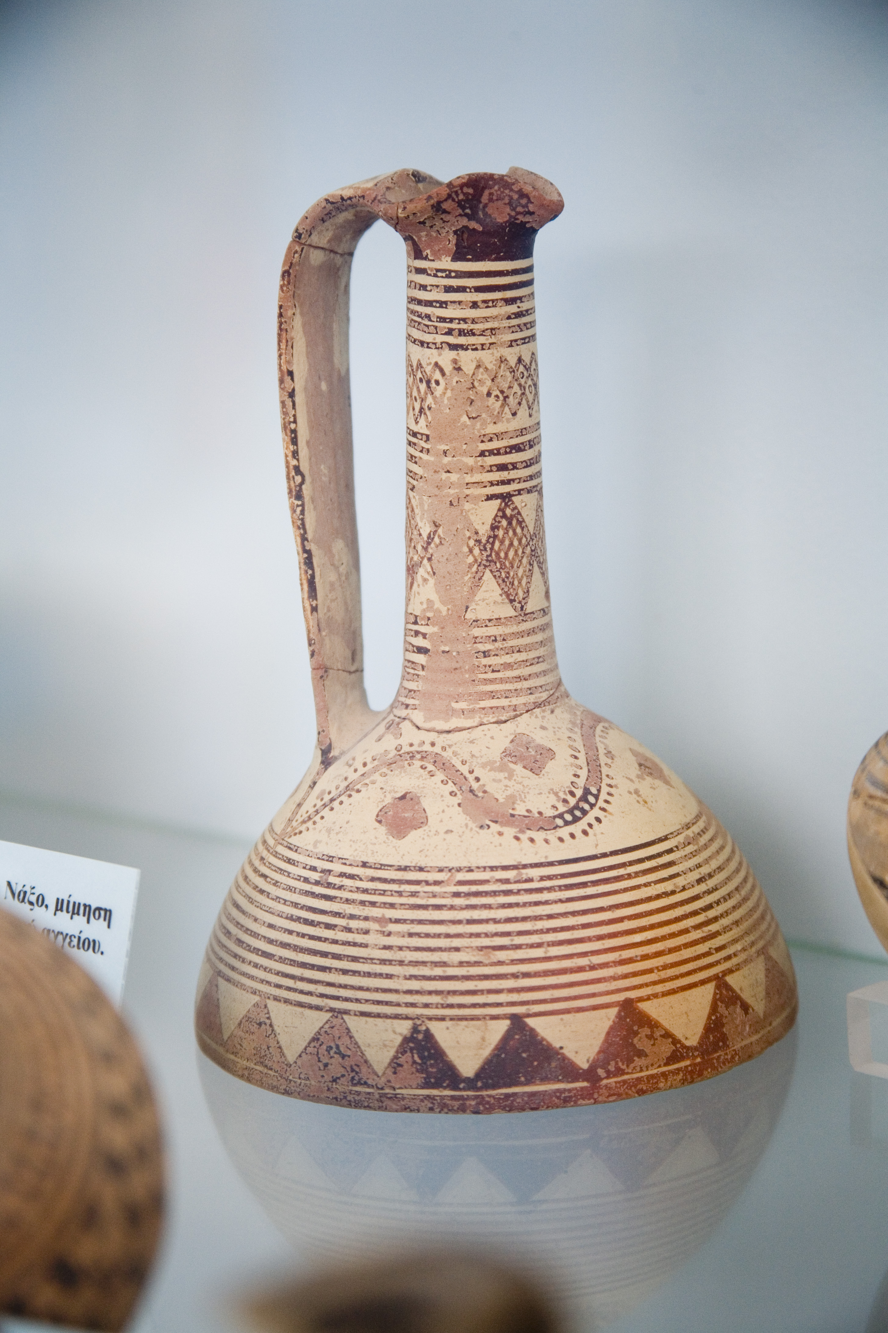 Corinthian Pot